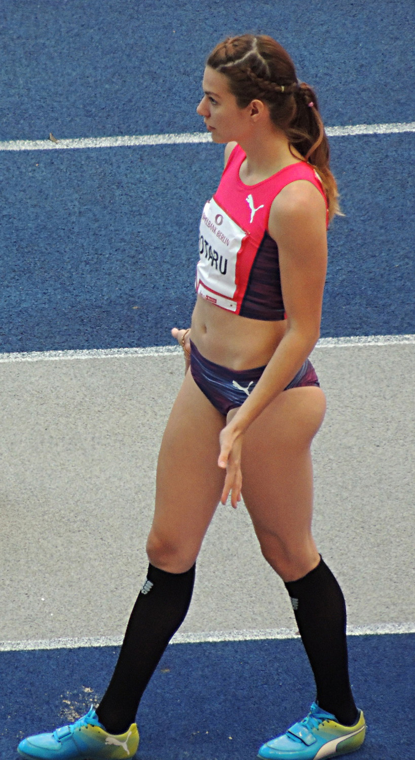 Alina Rotaru preparing to jump at ISTAF 2015